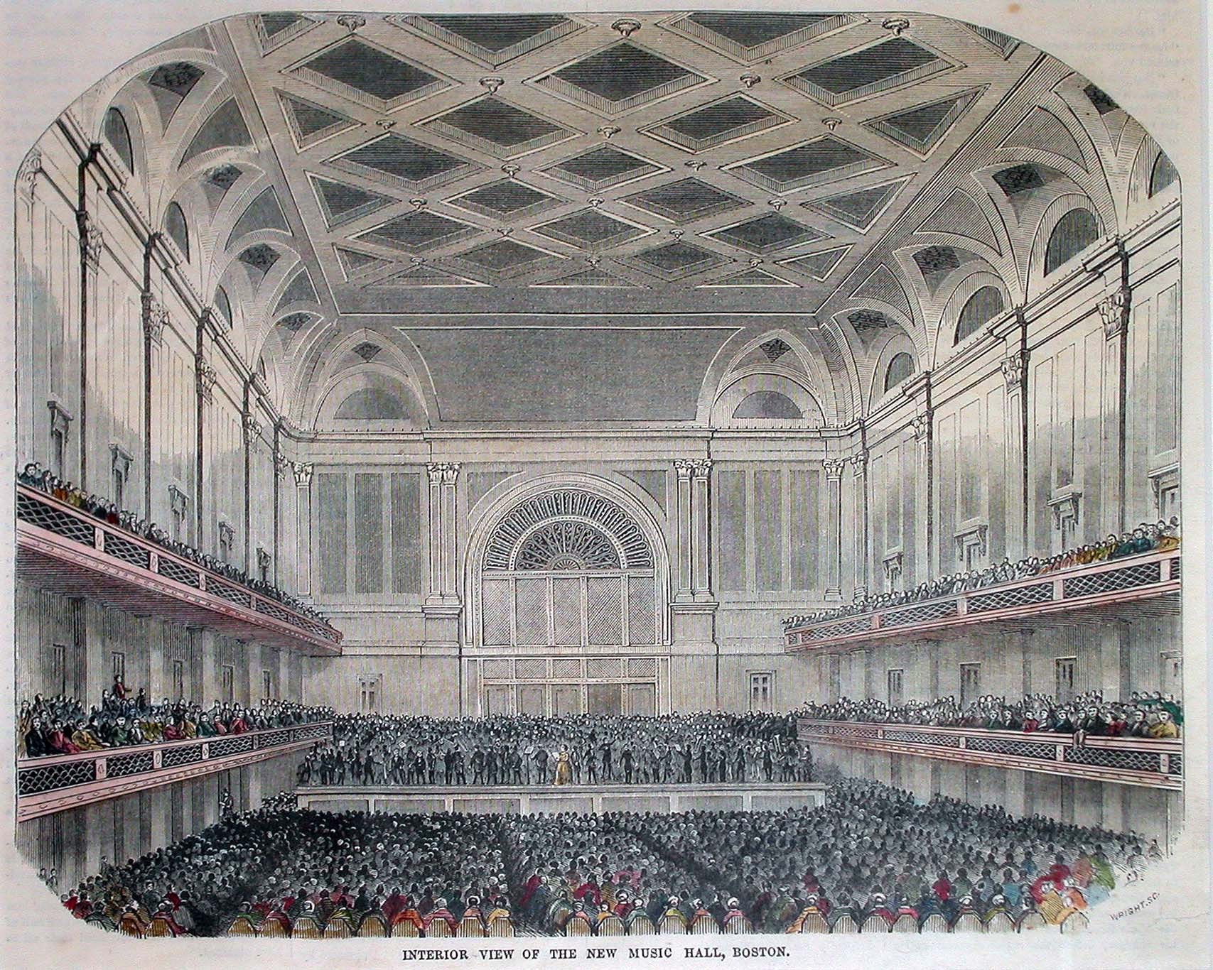 "Interior View of the Music Hall, Boston"